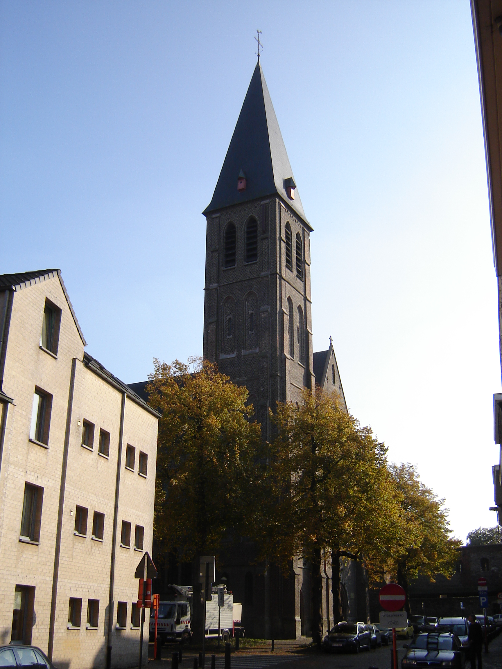 Church of Saint Macarius in Gent. Gent, East Flanders, Belgium.